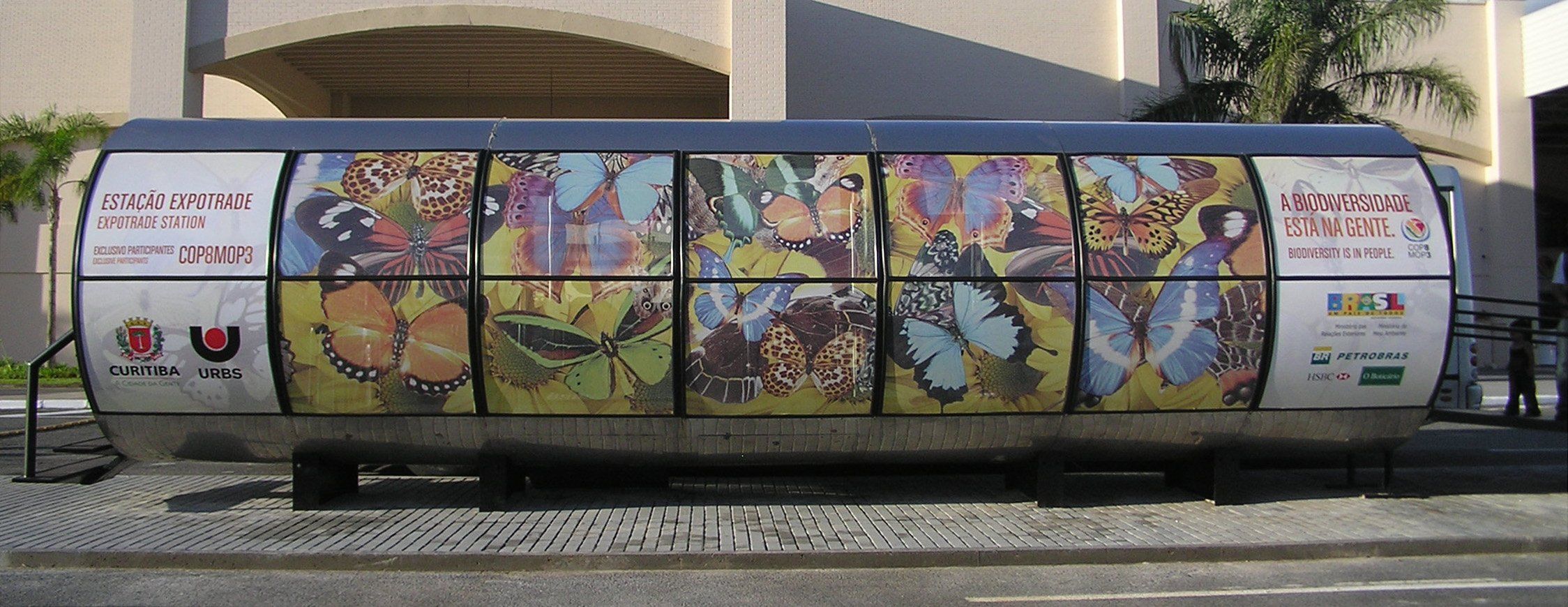 COP8MOP3: Bus stop